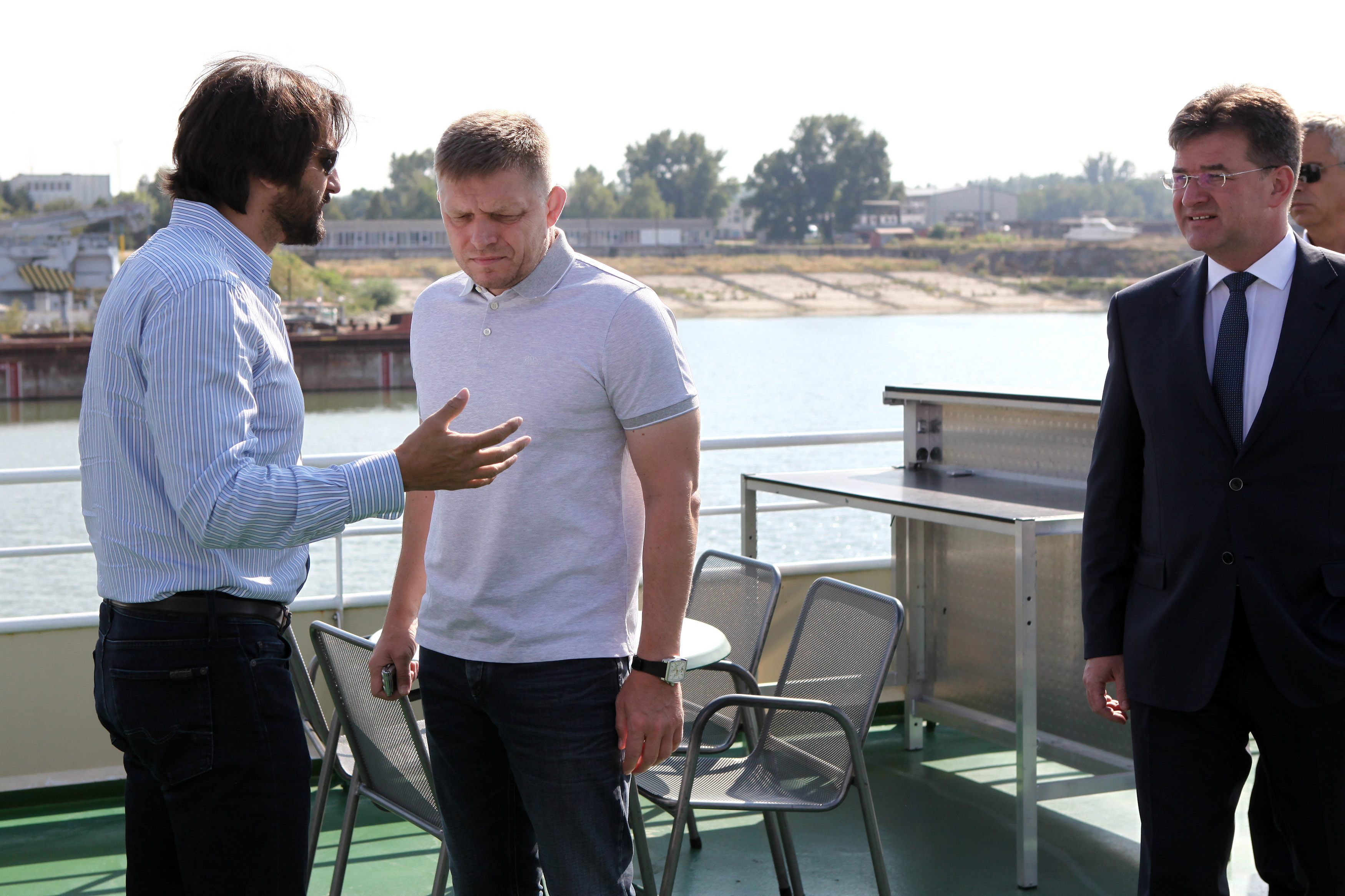 Slovakia, Mr. Robert Kalinak, Minister of Interior (L), Slovakia, Mr. Robert Fico, Prime Minister (C), Slovakia, Mr. Miroslav Lajcak, Minister of foreign and European Affairs (R) Photo: Andrej Klizan